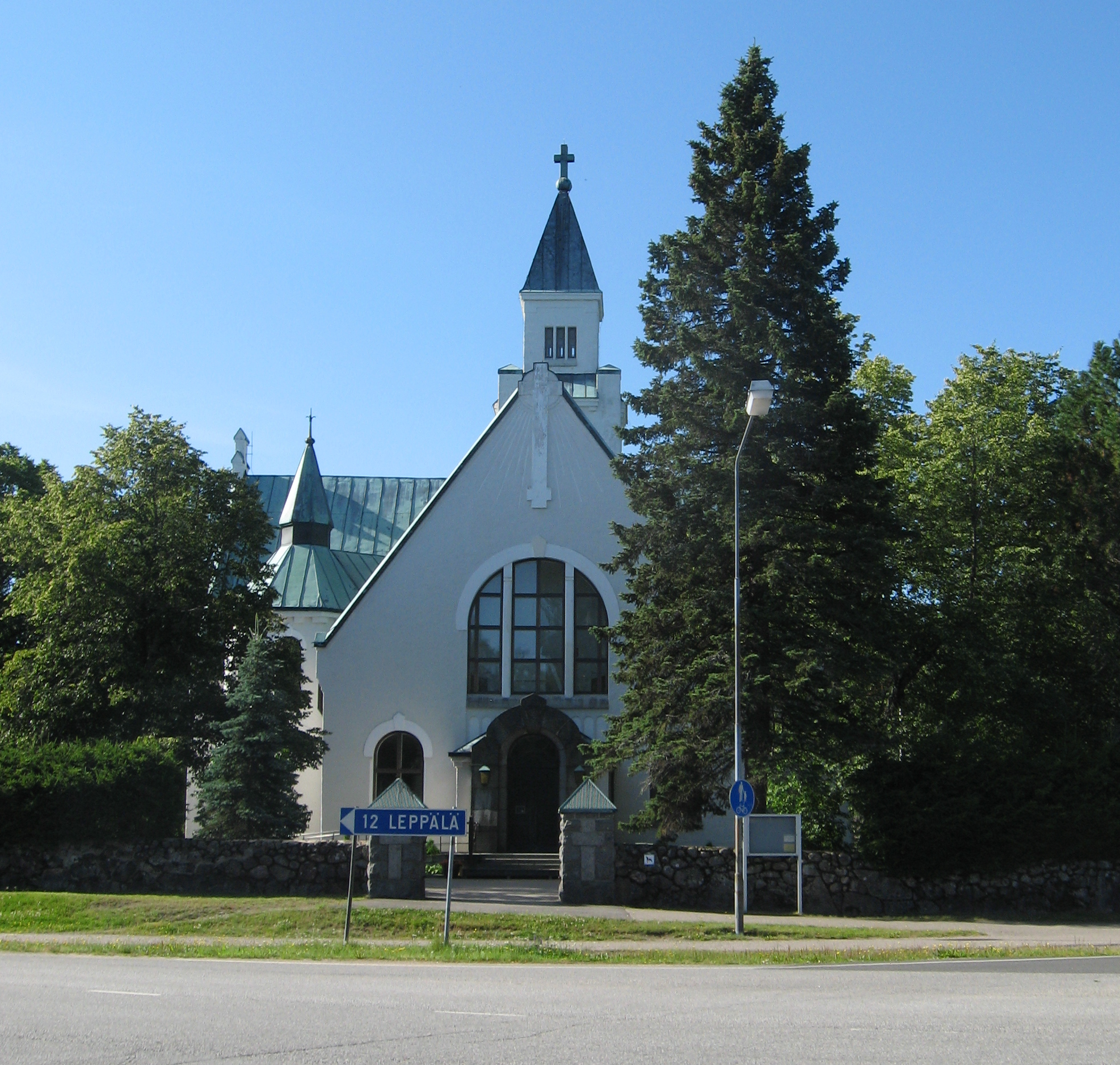 Church of Joutseno, Finland. July 31, 2008. Completed in 1921. Architect: Josef Stenbäck.